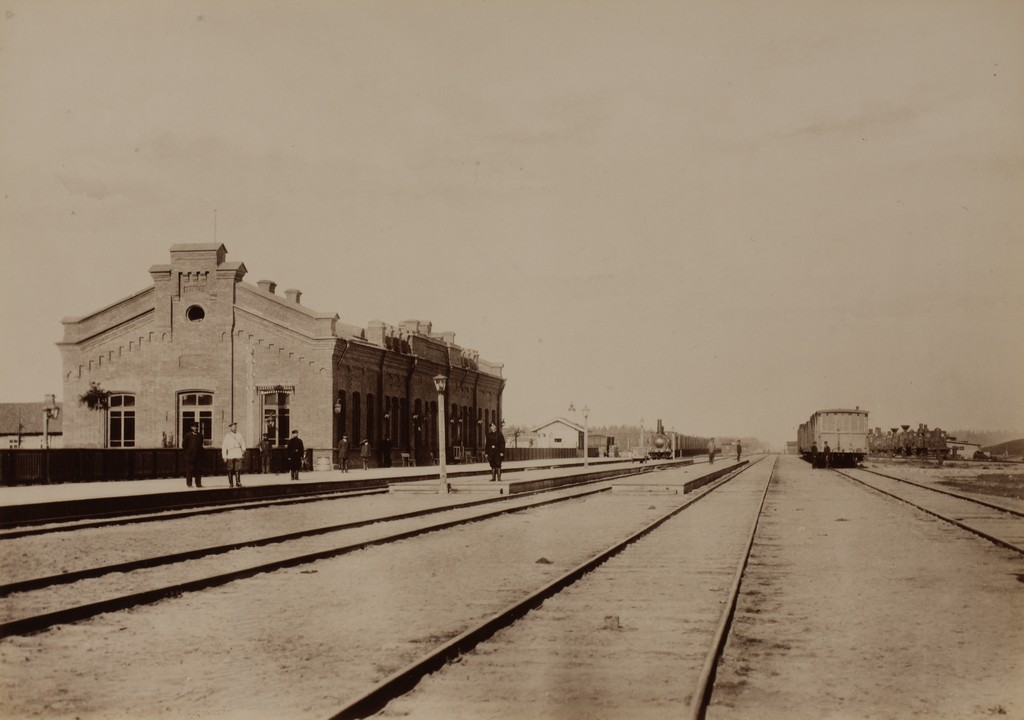 Valga train station, rail side view